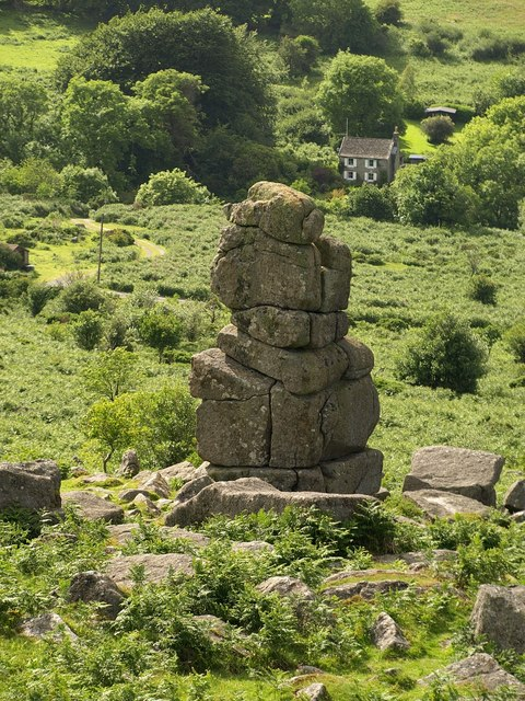 Bowerman's Nose. This striking rockpile on the north slopes of Hayne Down takes on different profiles from various directions. This view from the top of Hayne Down includes 183020.